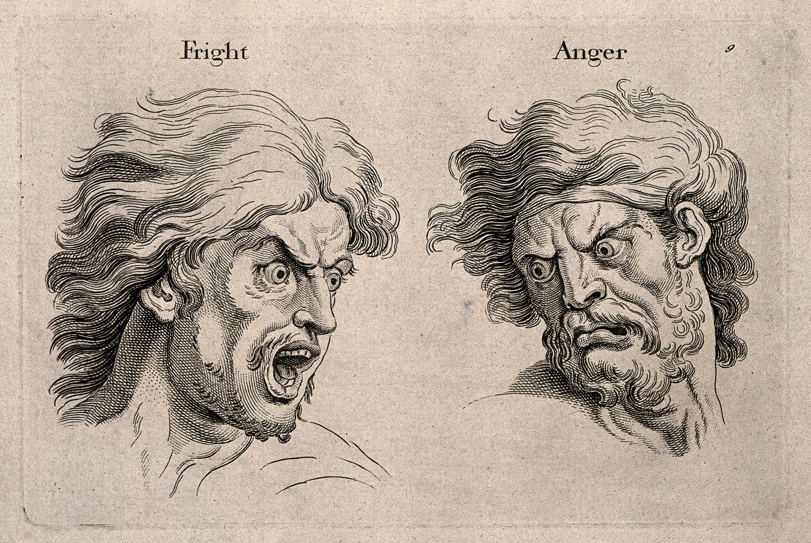 A frightened and an angry face, left and right respectively. Engraving, c. 1760, after C. Le Brun. Iconographic Collections Keywords: Physiognomy; John Tinney; Emotions; Face; Facial Expression; Anger; charles le brun; ic; Fear; Charles Le Brun